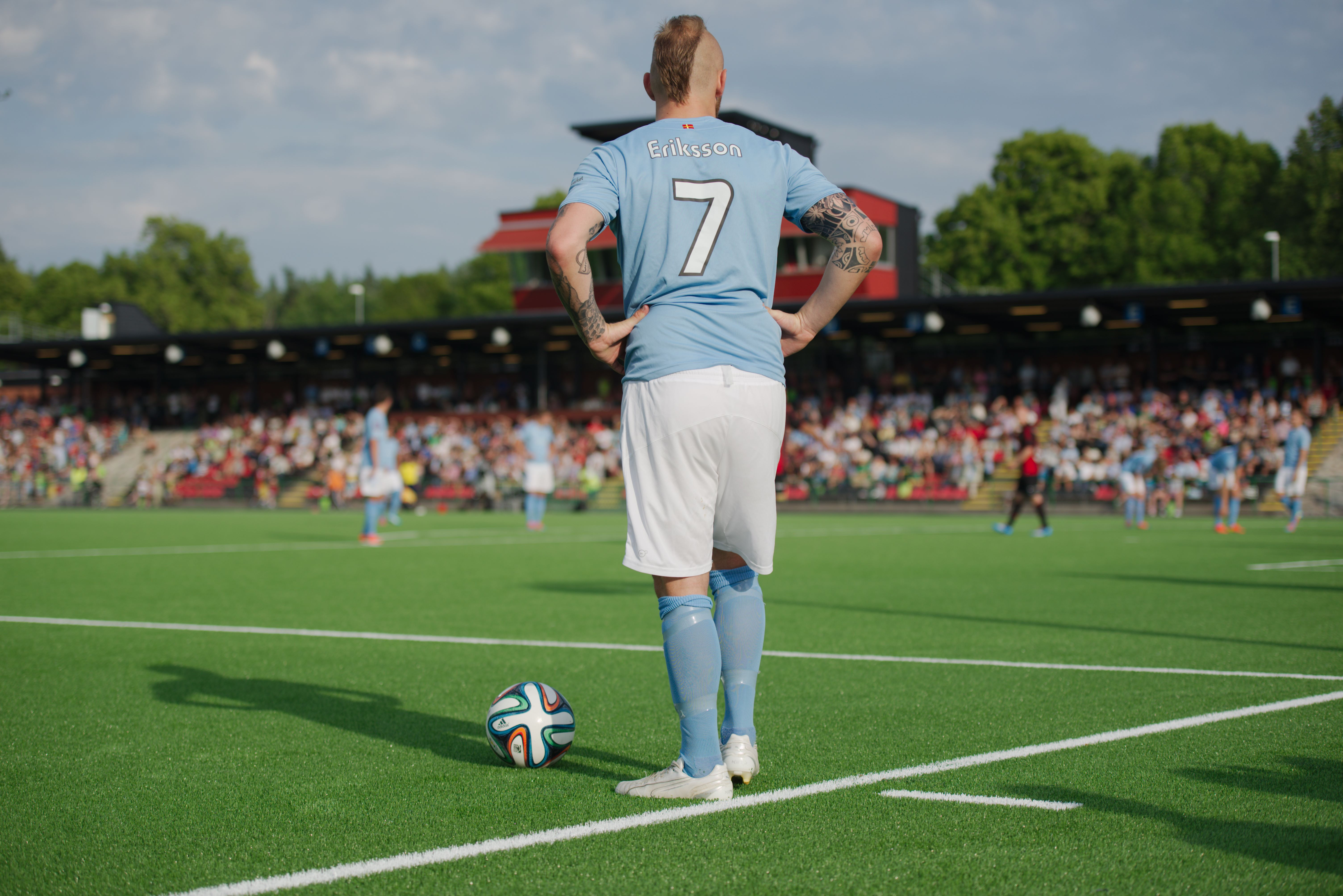 Allsvenskan IF Brommapojkarna-Malmö FF at Grimsta IP converted PNM file